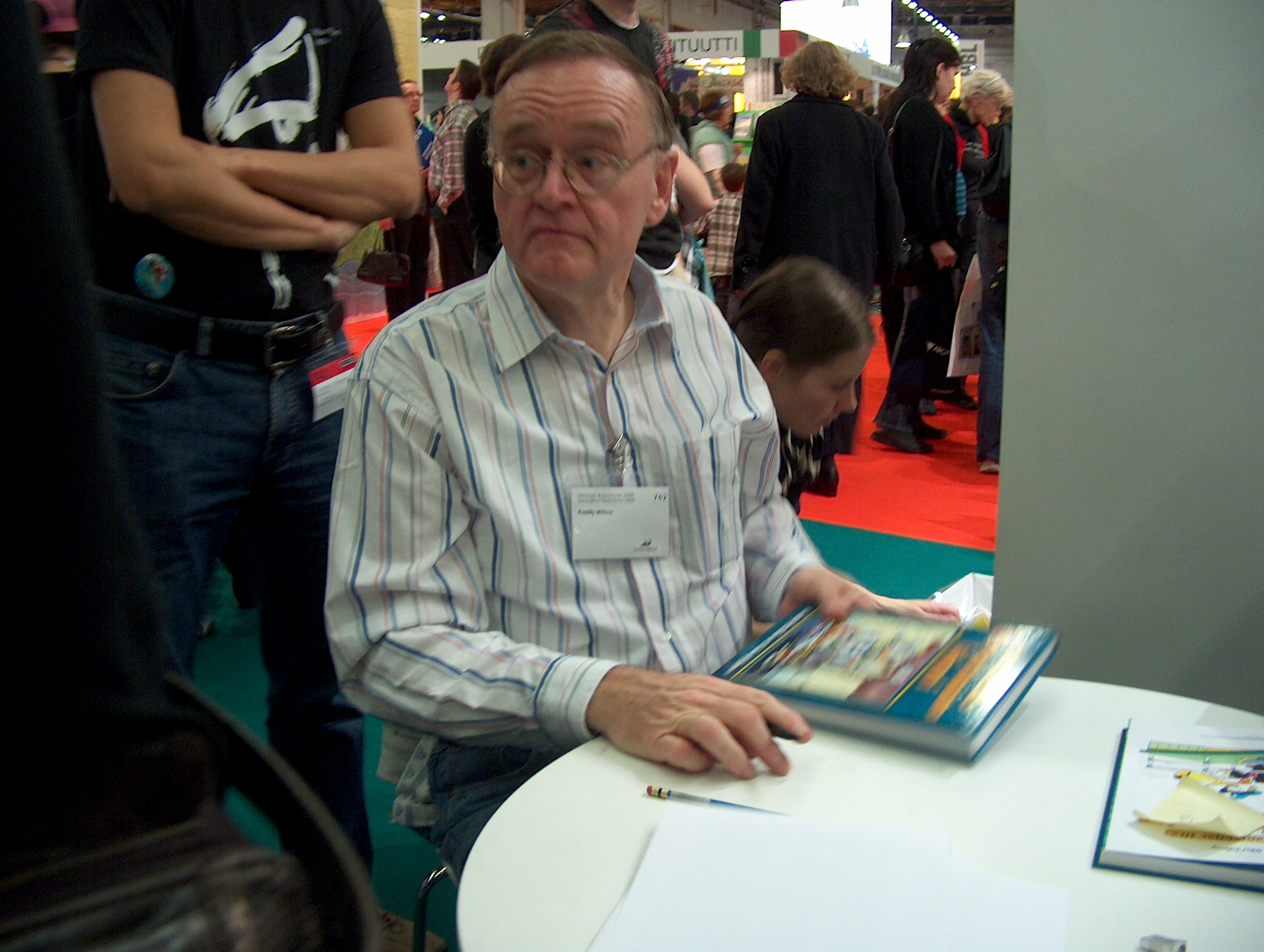 Danish cartoonist Freddy Milton at the Helsinki Book Fair 2008